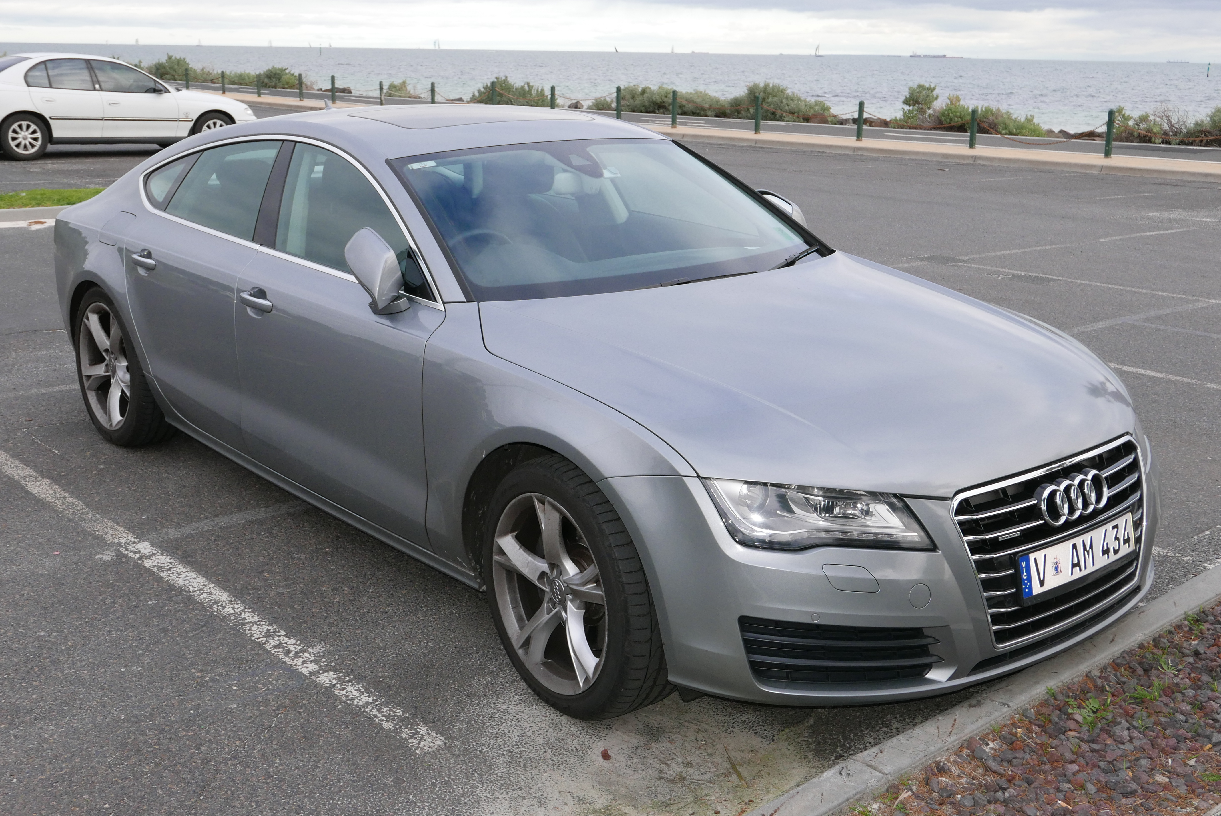 2011 Audi A7 (4G) 3.0 TDI quattro hatchback. Photographed in St Kilda, Victoria, Australia. Vehicle registration enquiry results Jurisdiction Victoria Registration VAM434 Chassis code WAUZZZ4G5BN006050 Engine code CDV004898 Compliance date 2011-02 Year of manufacture 2011